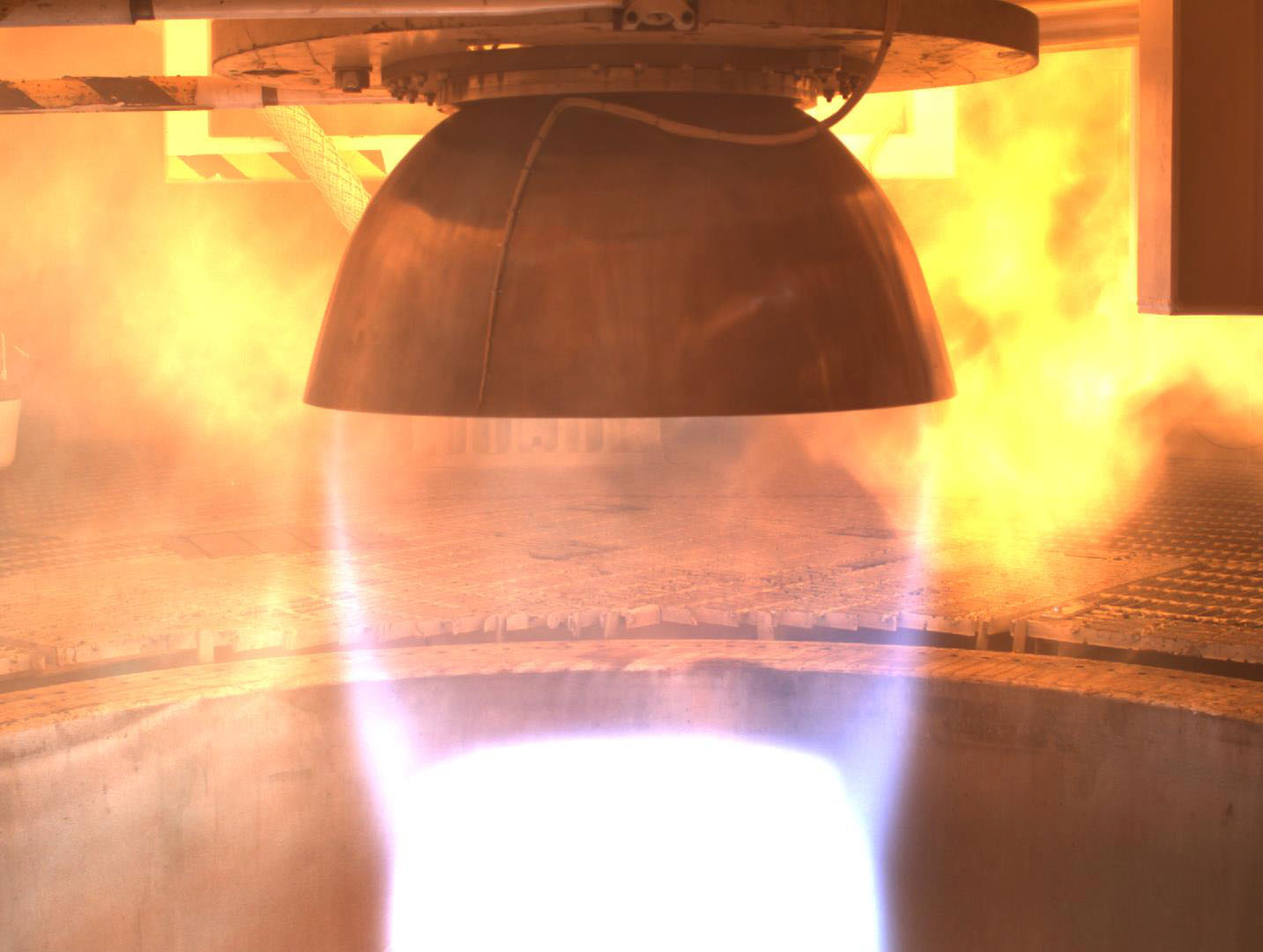 Project Morpheus: The liquid oxygen/liquid methane engine, developed by Armadillo Aerospace with help from NASA through an Innovative Partnership Program agreement, was tested in the vacuum chamber at NASA's White Sands Test Facility.